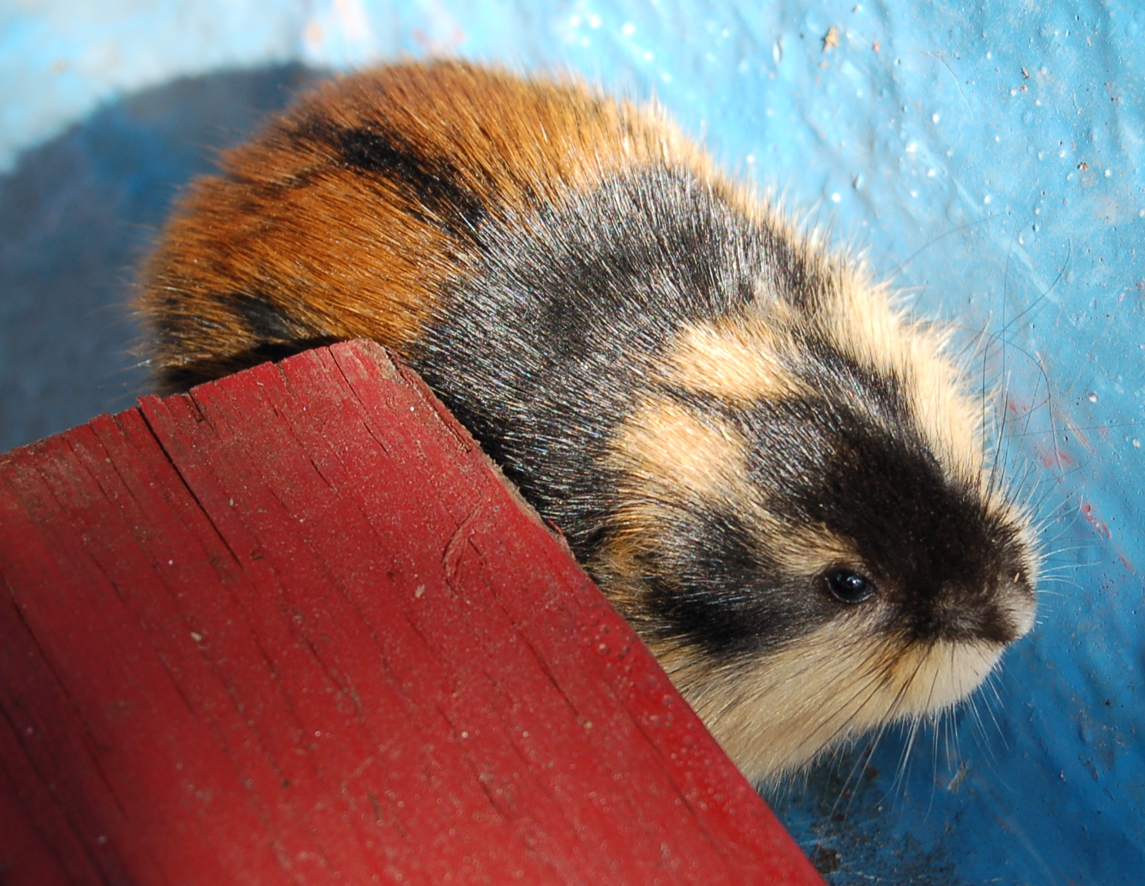 Norway lemming - Lemmus lemmus. Norwegian mountains. Fell into my boat and could not get out.